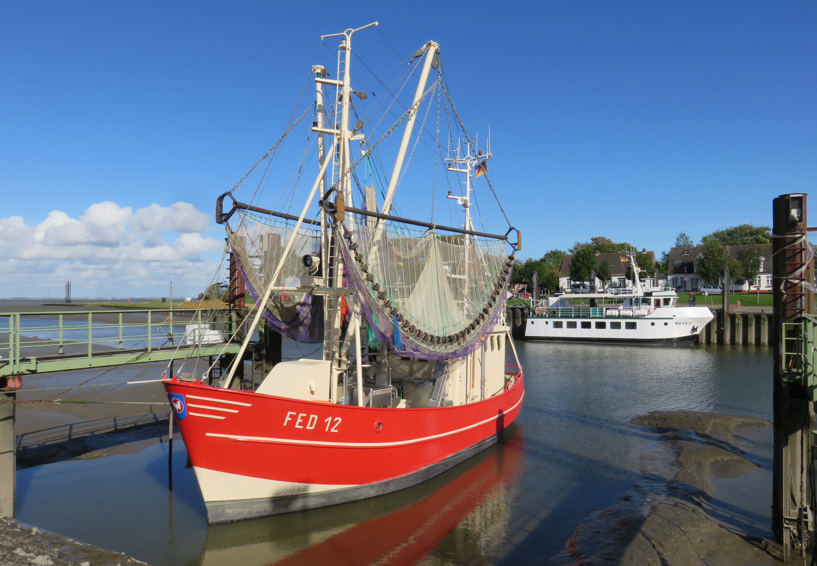 German shrimp trawler Rubin moored in Fedderwardersiel harbour with tour boat Wega II behind